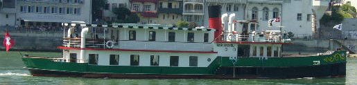 MS Baslerdybli of Basler Personenschifffahrt